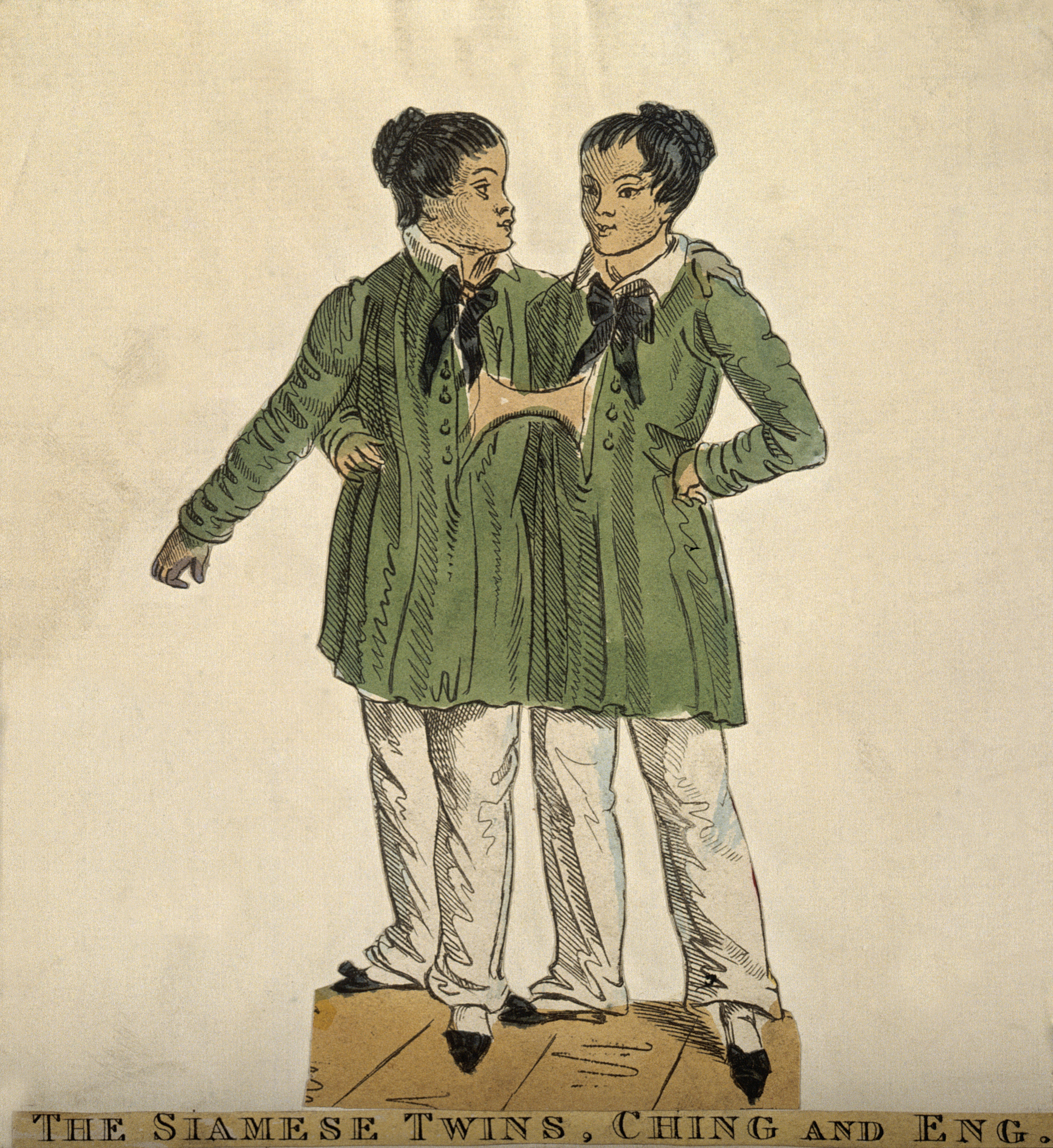 Chang and Eng the Siamese twins. Coloured etching. Iconographic Collections Keywords: Chang and Eng Bunker; portrait prints; siamese twins; bunker, chang and eng, 1811-18; birth defects; etchings